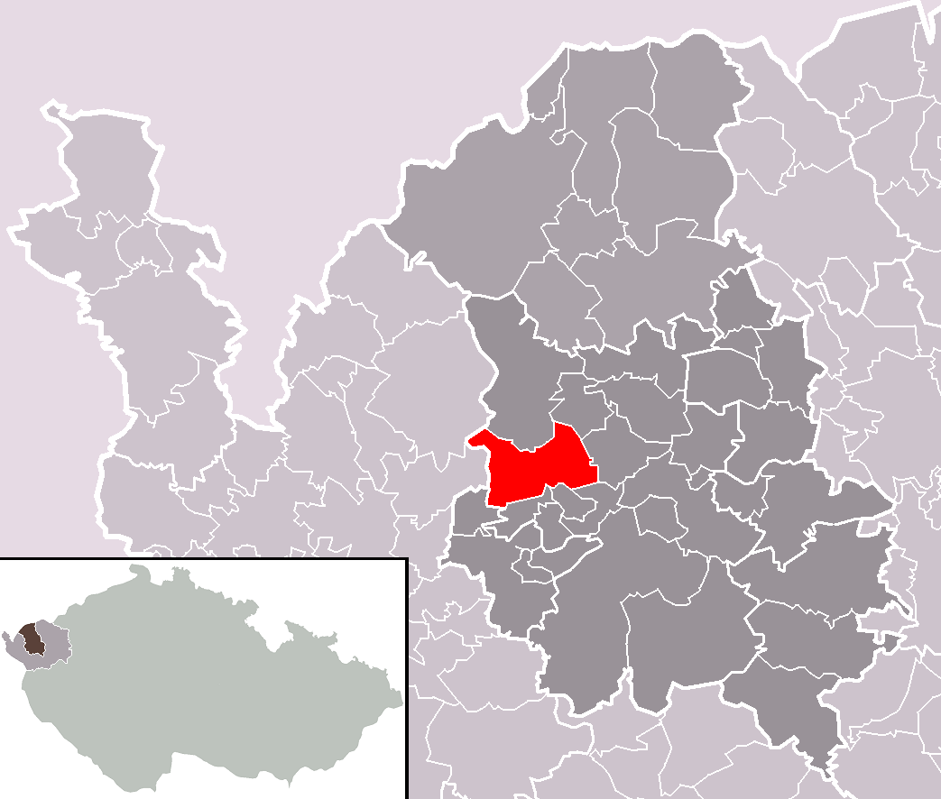 Location of Habartov town within Sokolov District and administrative area of Sokolov as a Municipality with Extended Competence.